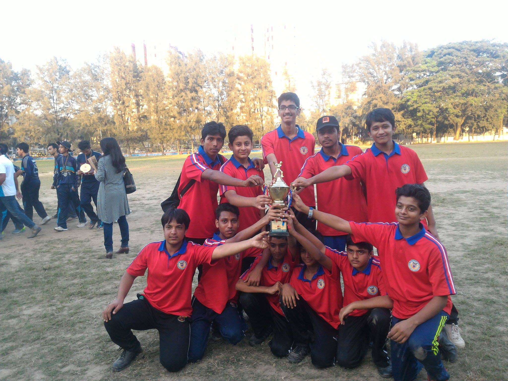 Team ASIS representing at an Inter-School Cricket Tournament